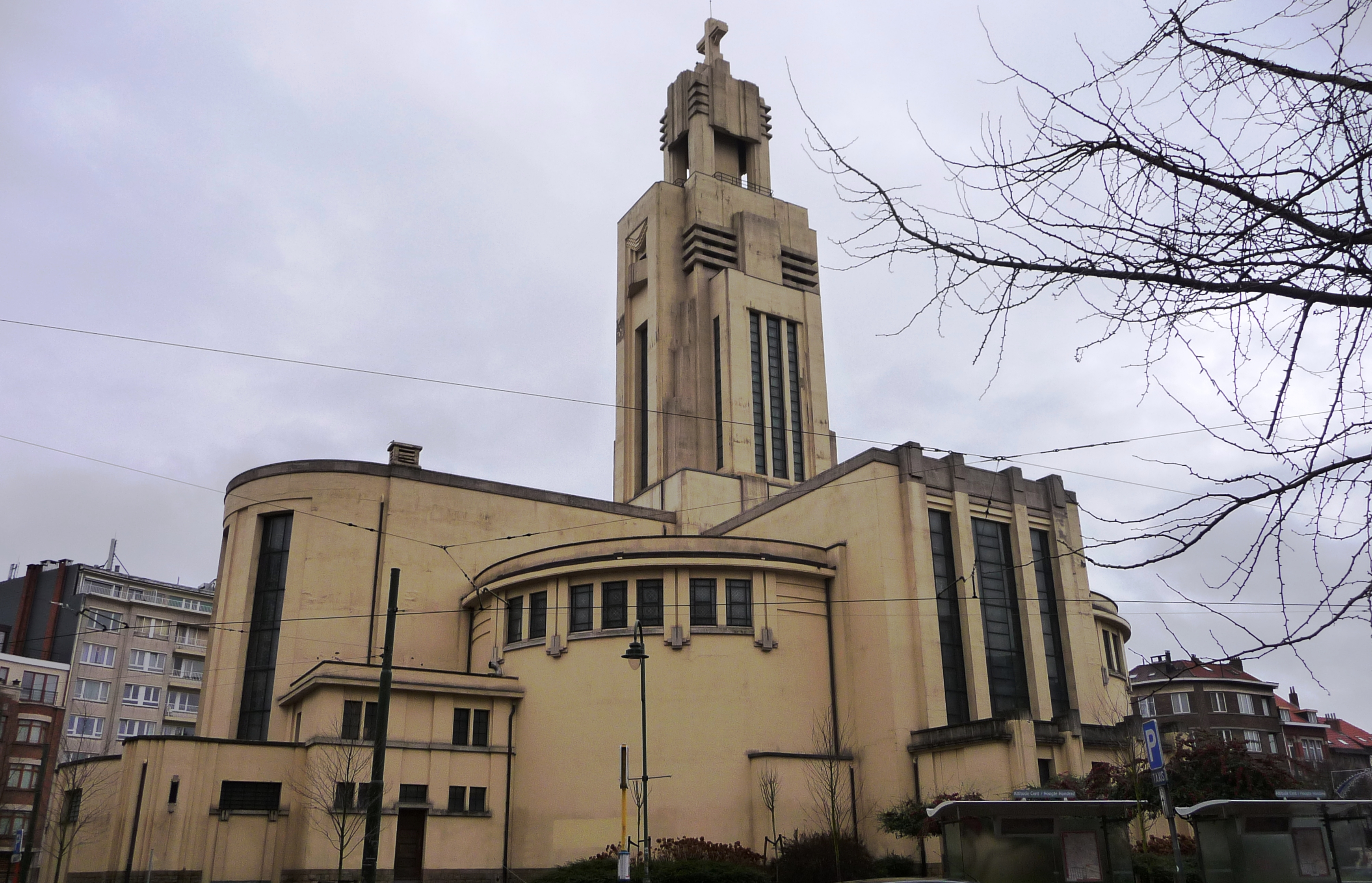 St Augustine's Church, Vorst/Forest, Brussels, Belgium.